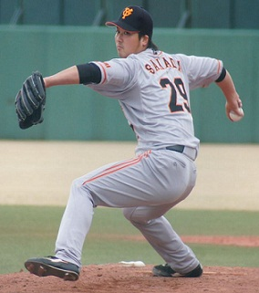 Hiroki Sanada, pitcher of the Yomiuri Giants, at Yakult Toda Baseball Ground.